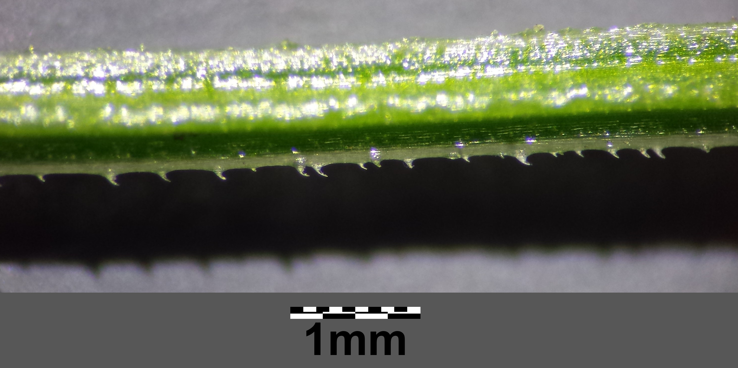 Stipe with downward oriented spikes Taxonym: Galium uliginosum ss Fischer et al. EfÖLS 2008 ISBN 978-3-85474-187-9 Location: near Komau, district Freistadt, Upper Austria - ca. 850 m a.s.l. Habitat: brookside